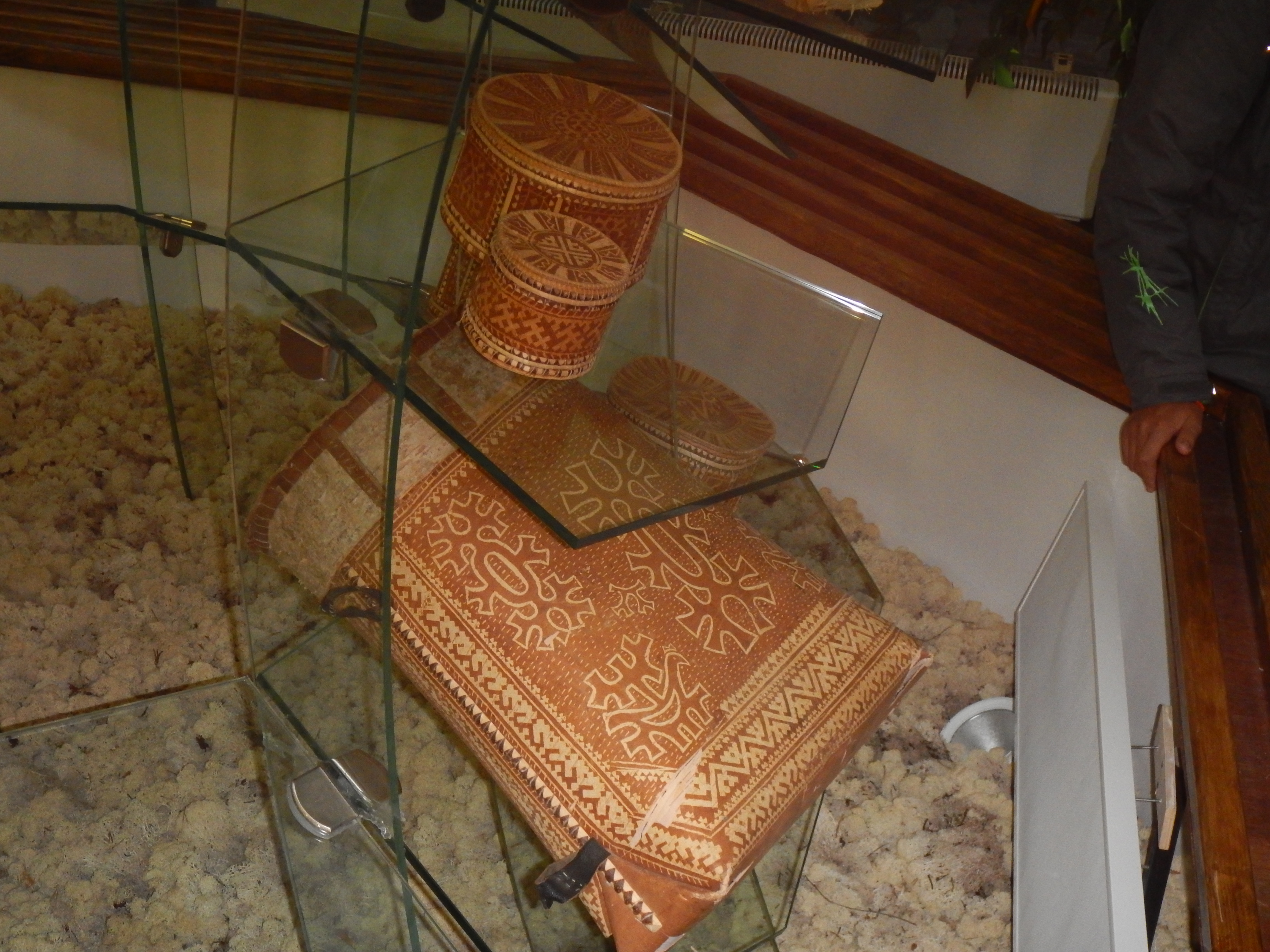 birch bark vessels (Museum in Belojarski)